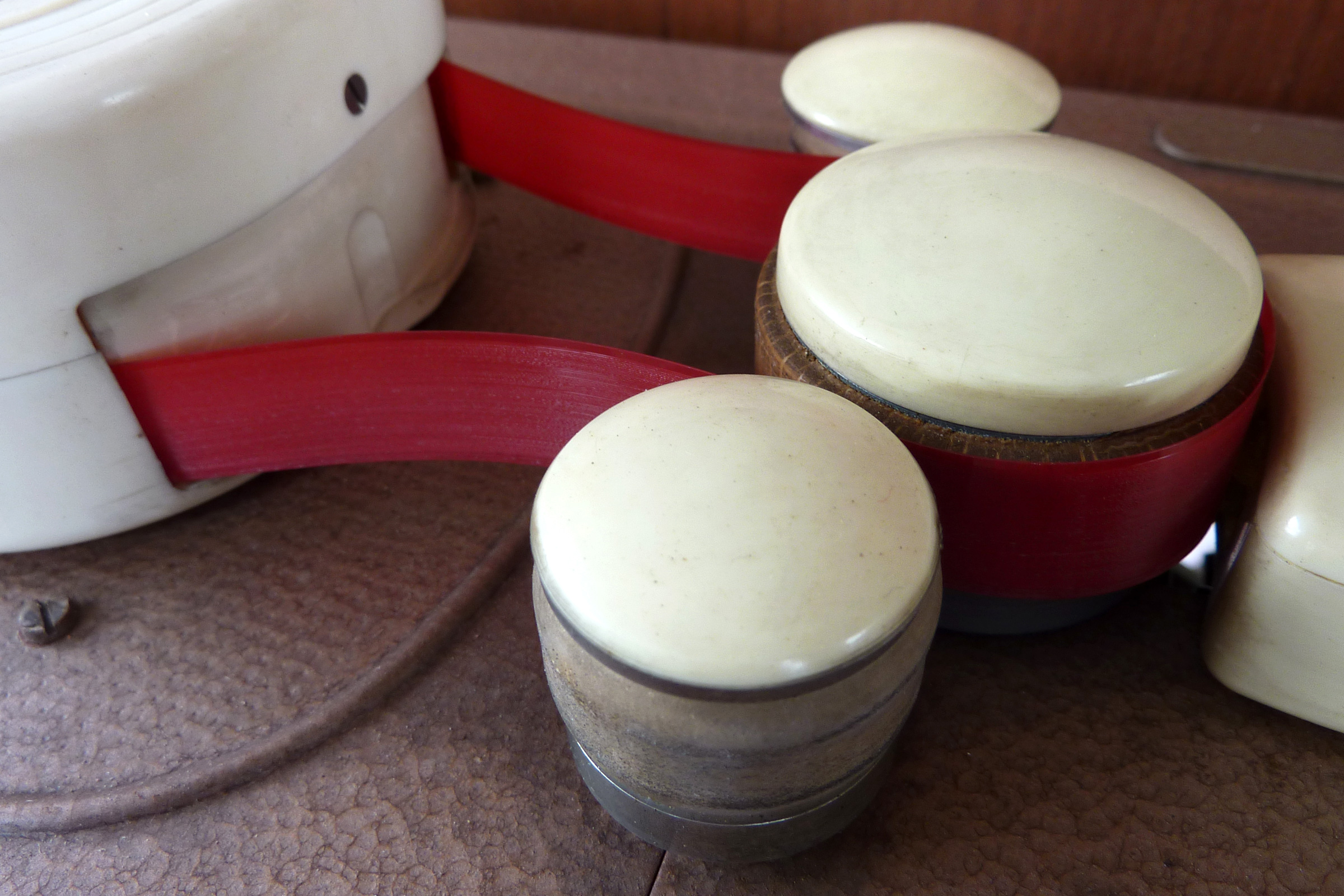 Tefifon